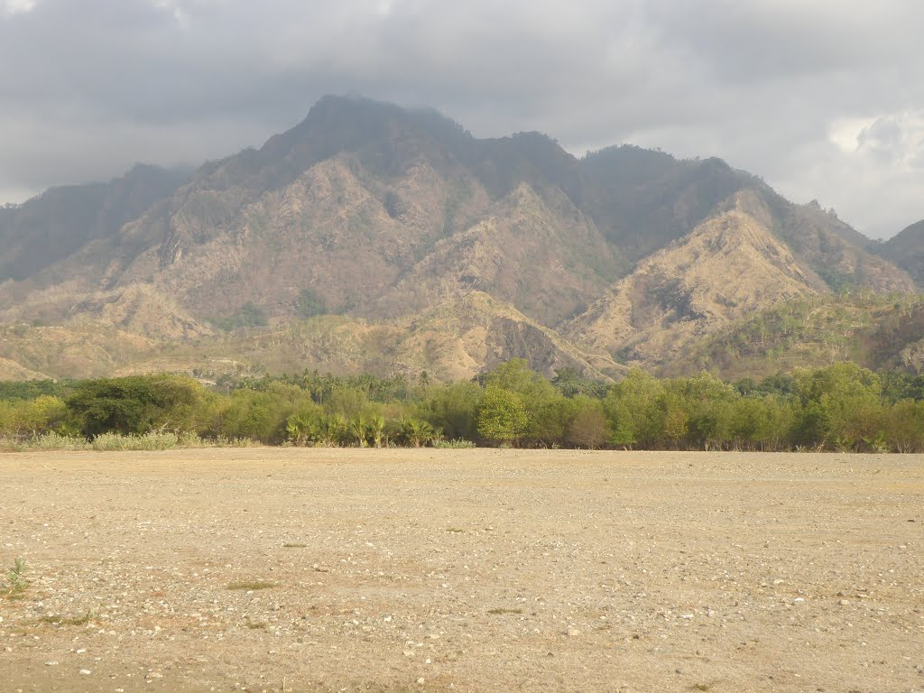 Grazing land and steep hills at Pante Makassar, suco Costa, Oecusse